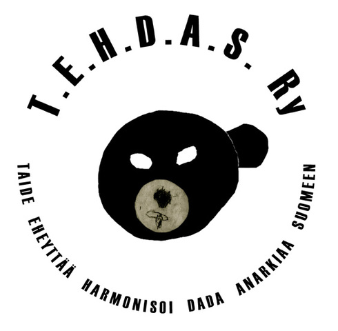 Logo features T.E.H.D.A.S ry mascot Dada Nalle.